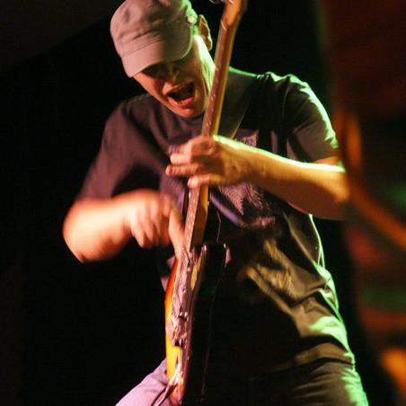 Endre Csillag (born October 12, 1957, Budapest) is a Hungarian guitarist, former member of rock band Edda and Bikini.